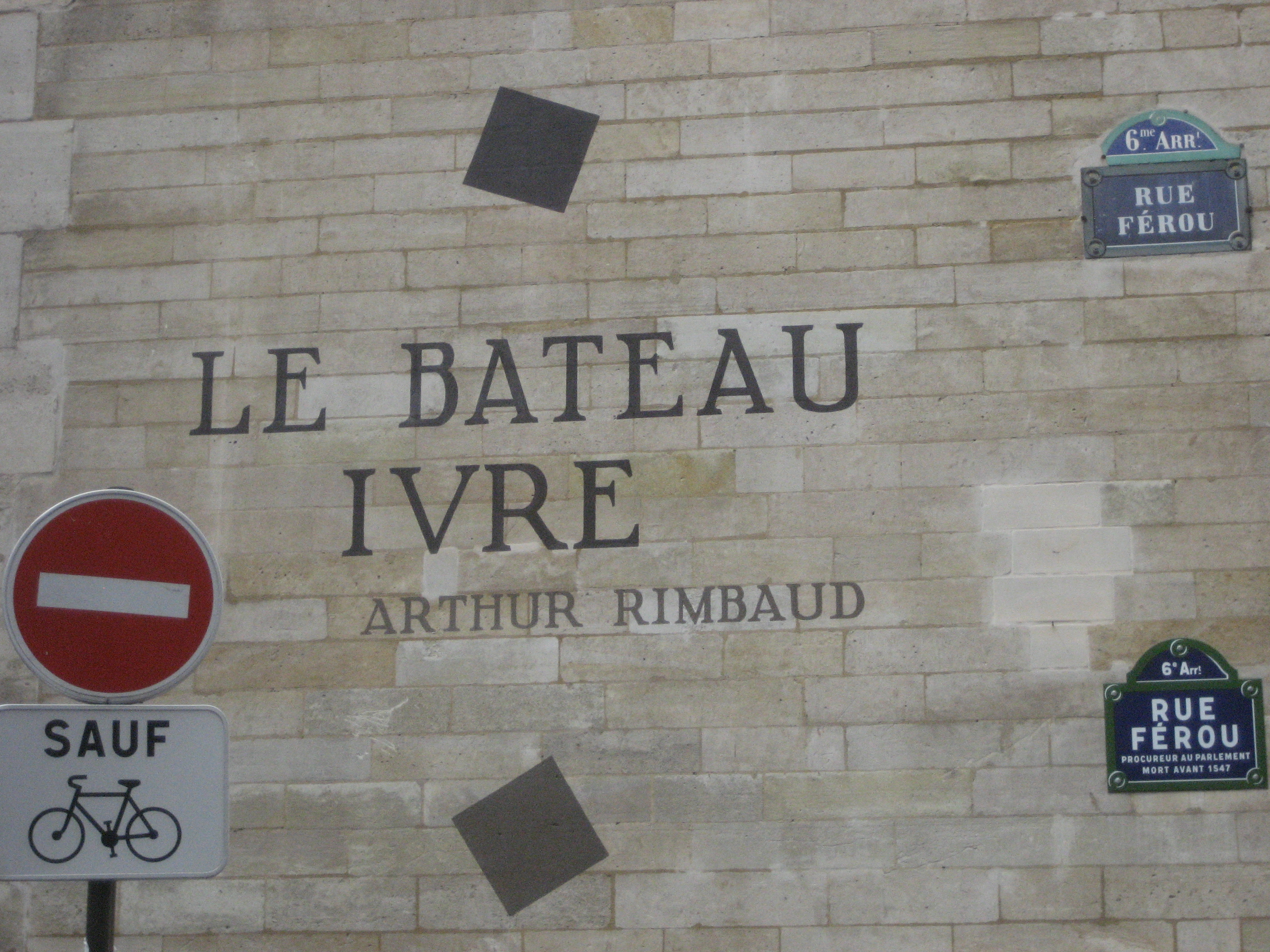 Le Bateau ivre by Rimbaud as a wall poem in the Rue Férou, Paris 6